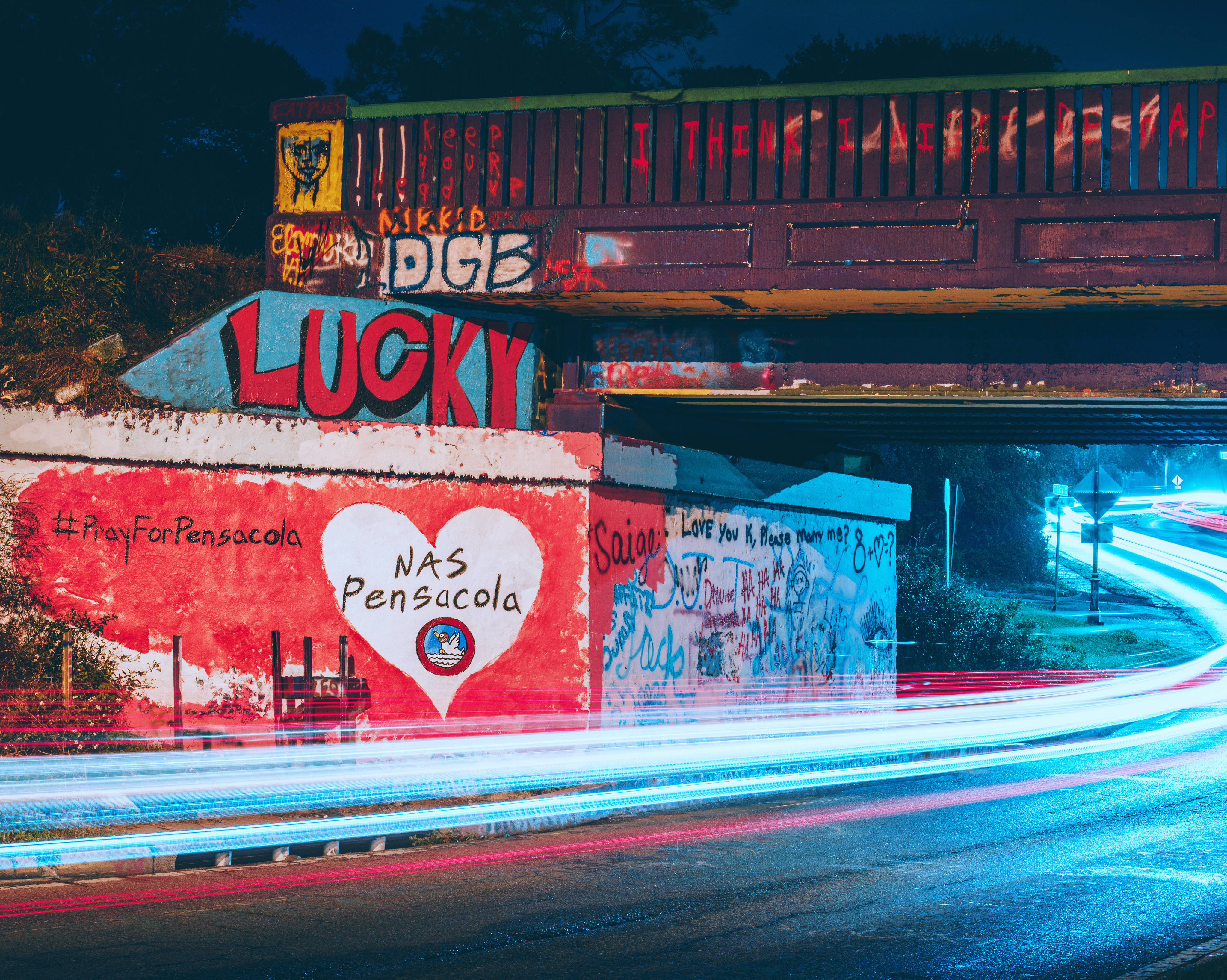 The Graffiti Bridge over 17th Avenue just before midnight on December 6, 2019 following the events at NAS Pensacola. Painted by a local resident.